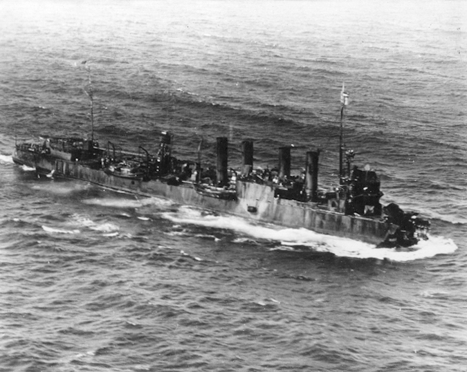 USS Blakeley's passage from Fort de France, Martinique to Castries, St. Lucia on May 27, 1942 LCDR Mitchell D. Matthews CO of USS Blakeley, was awarded a Legion of Merit medal for bringing the ship to Philadelphia from the Caribbean with a temporary bow after she was torpedoed by U-156